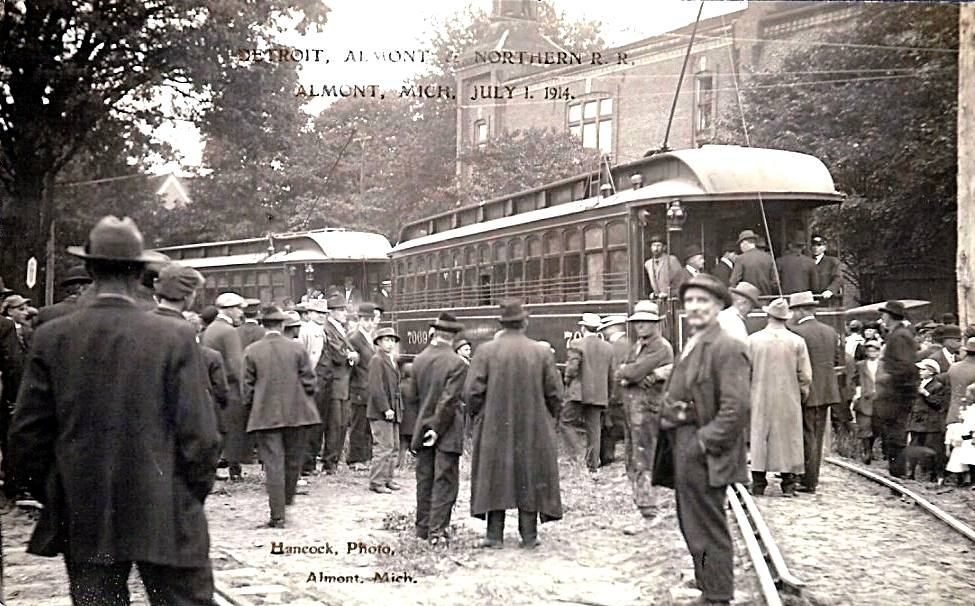 "The Detroit, Almont and Northern Railroad Company extended its line from Romeo to Almont. This company is a subsidiary of the Detroit United Railway, and its property is operated by that company. Schedules for its operation went into effect July 1, 1914. The D. A. & N. Co. was proceeding with the extension of its road northerly to Imlay City at the close of the year." ---1914 annual report of the Michigan State Commissioner of Railroads.